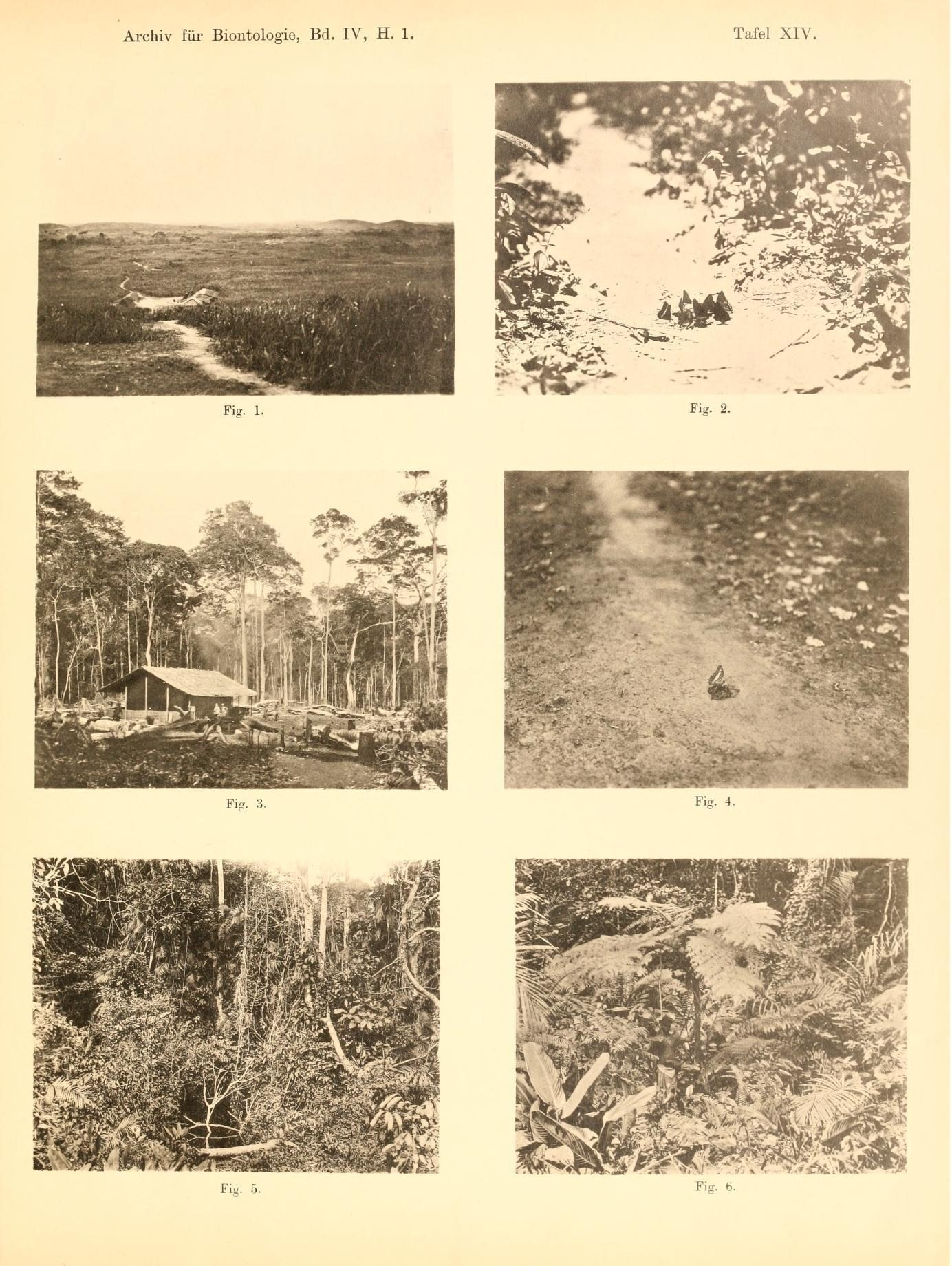 Arnold Schultze, 1917 Die charaxiden und apaturiden der kolonie Kamerun : eine zoogeographische und biologische studie / von Arnold Schultze. Mit tafel IX-XIV, 1 karte und 2 textfiguren.Berlin,Gesellschaft Naturforschender Freunde zu Berlin,1916 Plate XIV* Figure 1 Forest grassland transition (Kadei S.E .Cameroon) Figure 2 Charaxes at leopard (Panthera pardus) dung (Charaxes brutus var angustus, C. eupale, C. kahldeni, C. protoclea, C. tiridates, C. bipunctatus) Figure 3 Clearing between Yukaduma and Assobam (South-East Cameroon) where Schultze found 39 Charaxes species. Figure 4 Charaxes castor v. godarti feeding (imbibing) at Zibetkatzen (Viverrinae) excretion Figure 5 Edge of a path through the primary forest on the Peneplain of South Cameroon palms in the tribe Calameae palms and Lianas Figure 6 Edge of a path with Raffia palms (Raphia), tree ferns (Cyatheales), Phrynium (Marantaceae) typical foodplants of Charaxes larvae. Original photographs by Arnold Schultze text